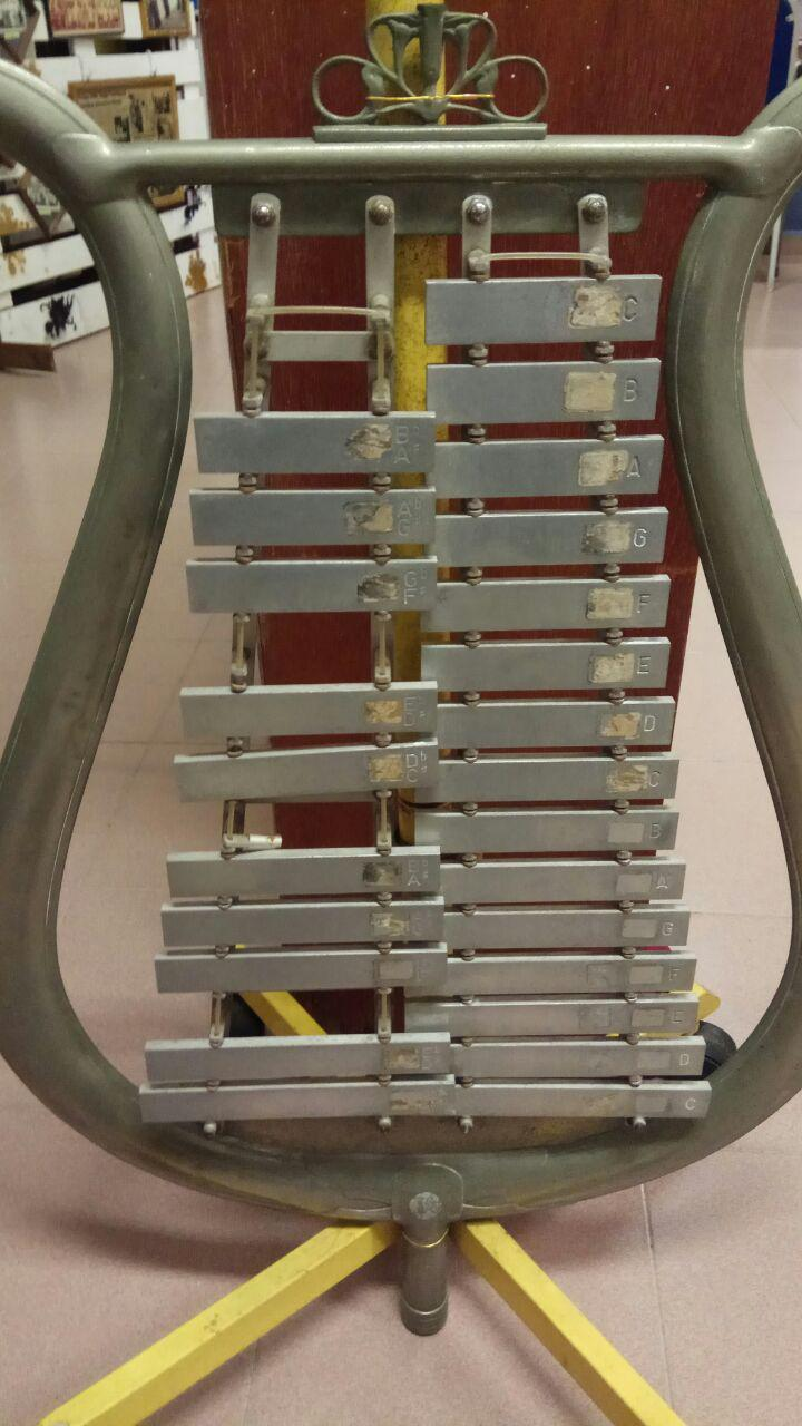 Marc Bell